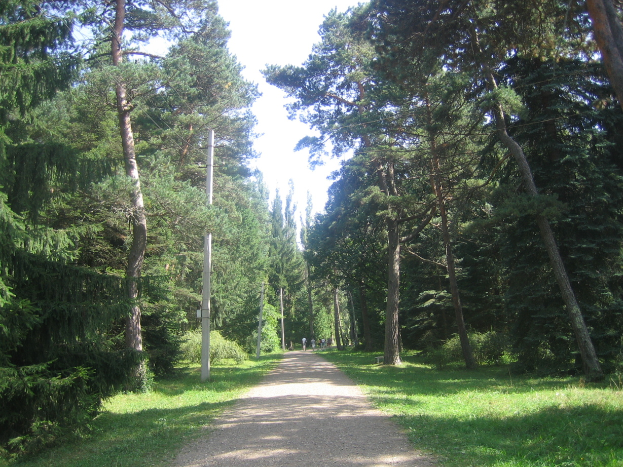 Entrance pathway in the Stepanavan Dendropark near Stepanavan in the Lori Province of Armenia.